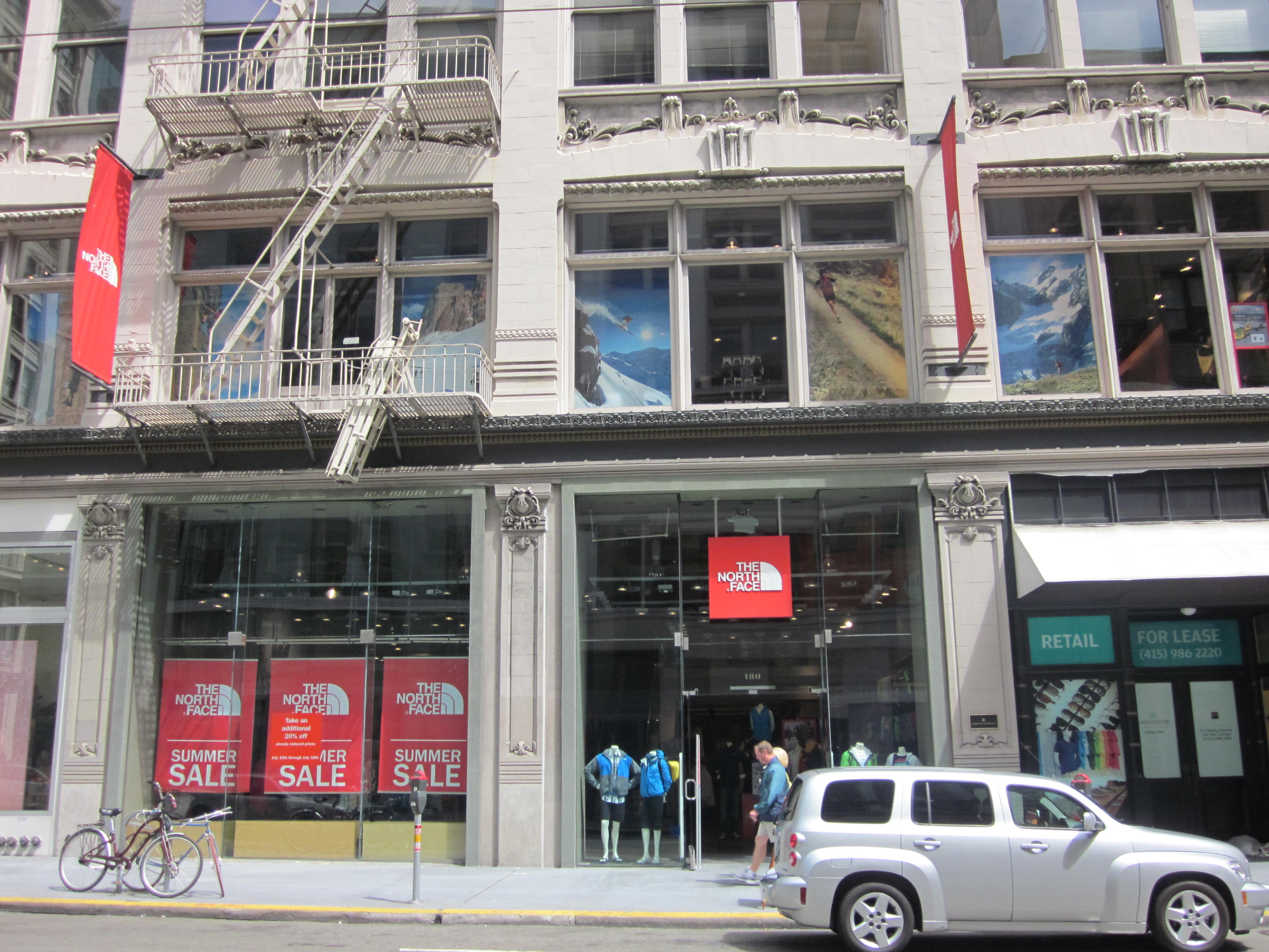 The North Face near Union Square, San Francisco.